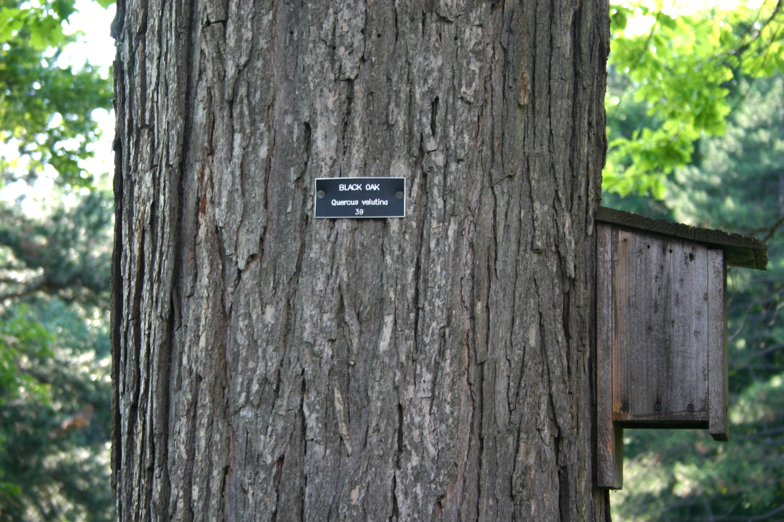 Closeup of black oak bark on marked tree at Colgate Rochester Crozer Divinity School )